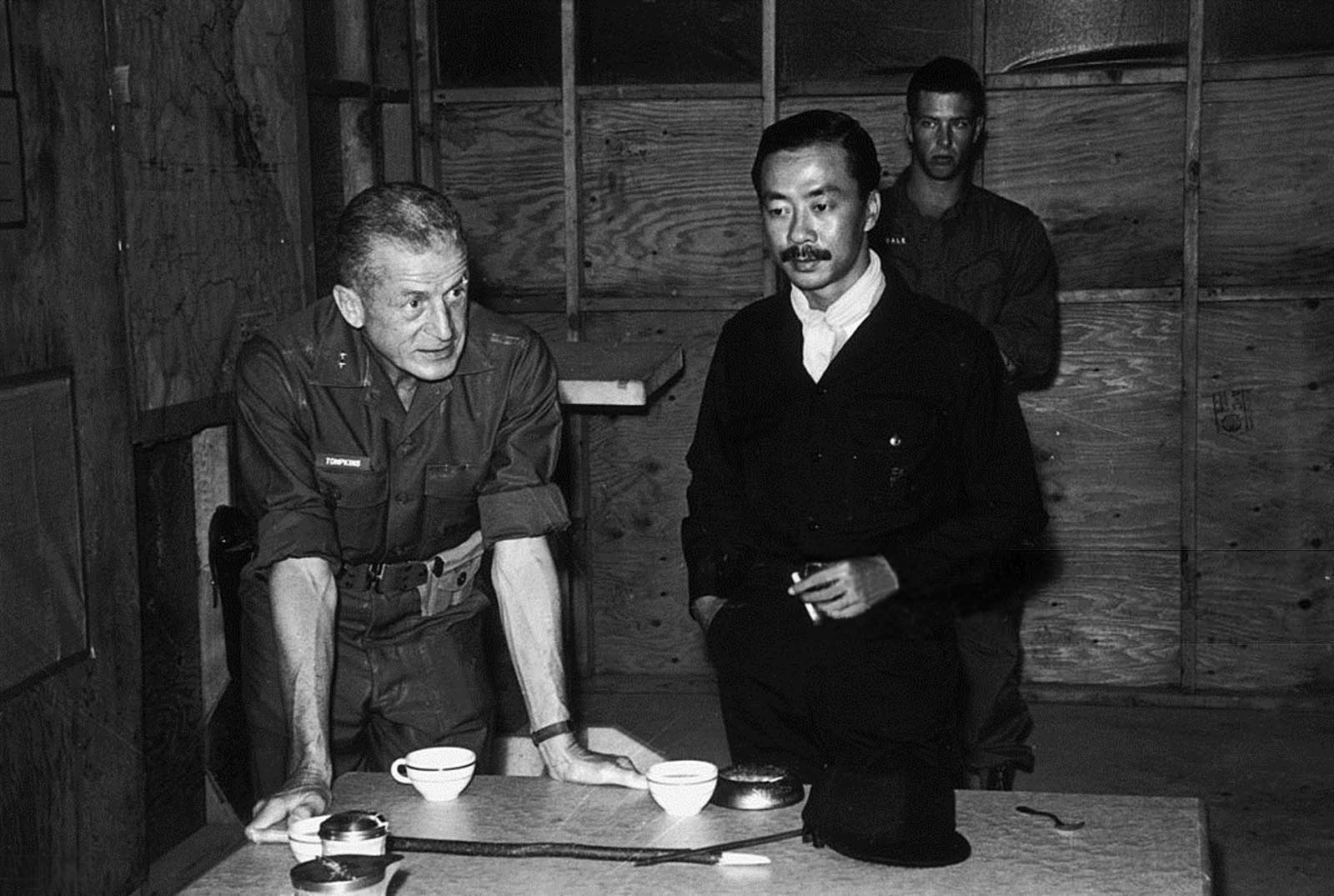 24th December 1967: South Vietnamese vice president Nguyen Cao Ky and Marine Major general Rathvon McClure Tompkins during a briefing at Dong Ha Combat Base, Vietnam.